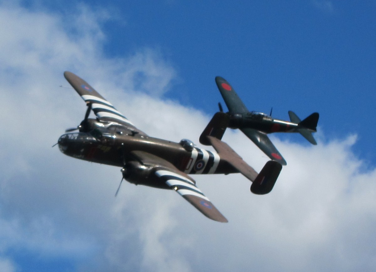 A B25 Mitchell bomber being pursued by an A6M3 Zero, in a mock simulation of combat during the 2012 Arctic Thunder Air Show, at Elmendorf Air Force Base (Joint Base Elmendorf/Richardson or JBER)